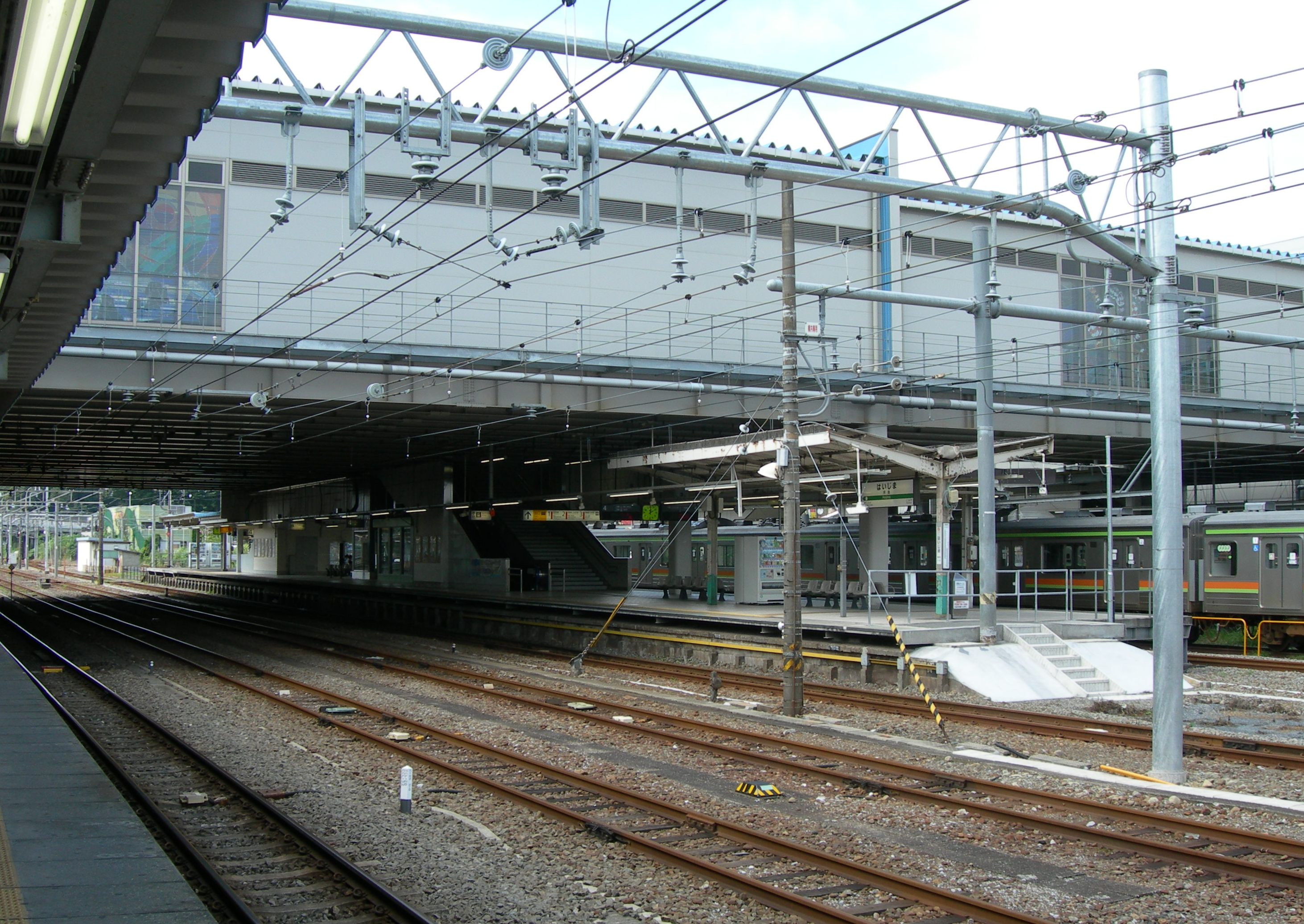 Haijima Station, looking toward platforms 4 and 5 from platform 3